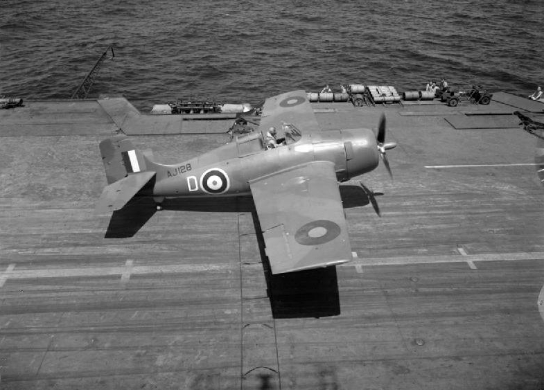 A Royal Navy Grumman Martlet II of 888 Naval Air Squadron, Fleet Air Arm, taxi-ing forward after landing on board HMS Formidable (67).